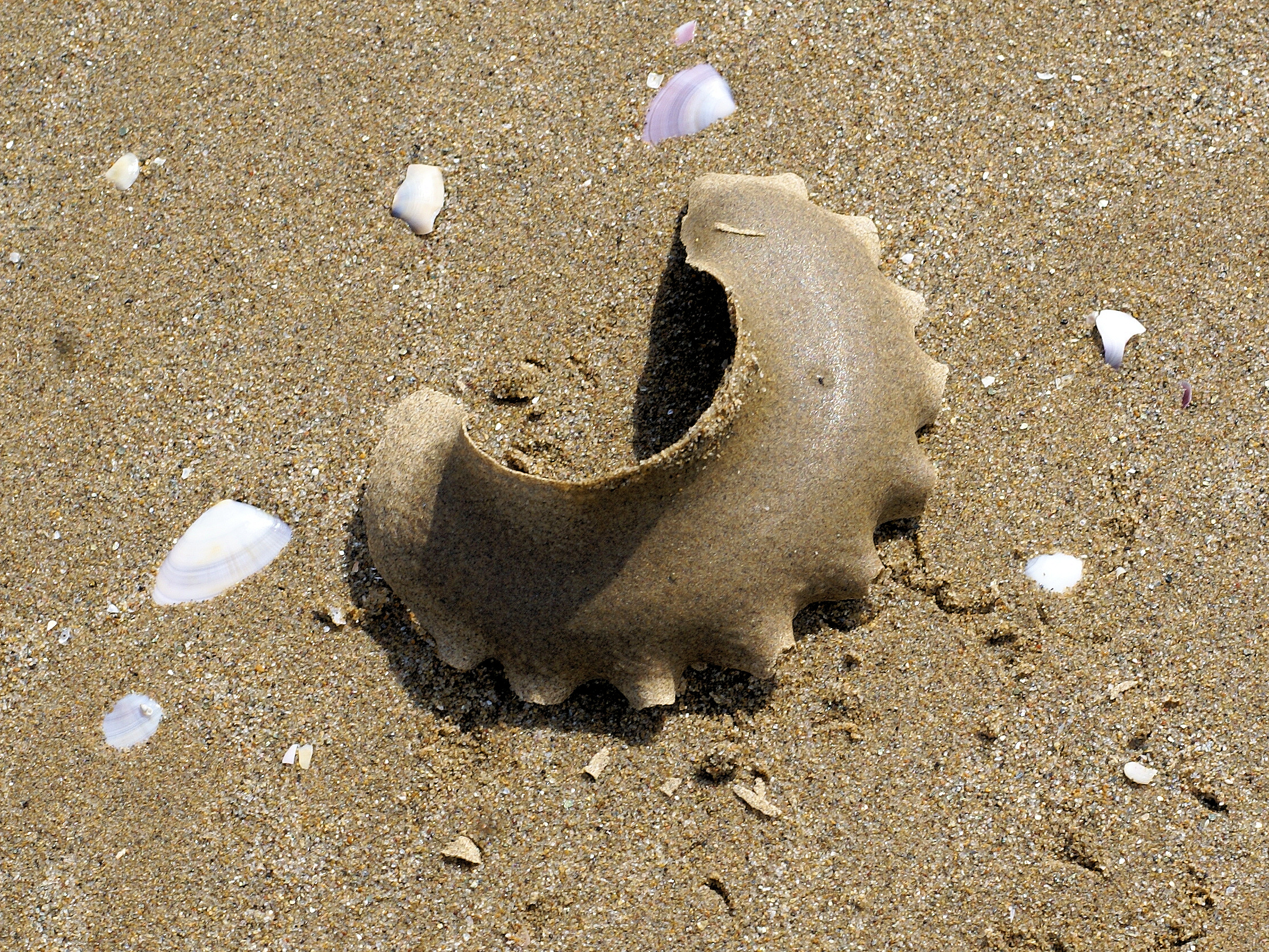 Egg capsule of a moonsnail from the Ebro Delta (Catalonia), Spain